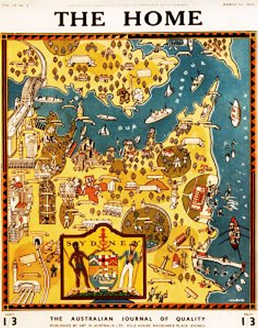 Cover of journal "The Home" 1 March 1932, including a complete Sydney Harbour Bridge. Roads and Maritime Services (NSW) colour negative 36343 scan 50367.